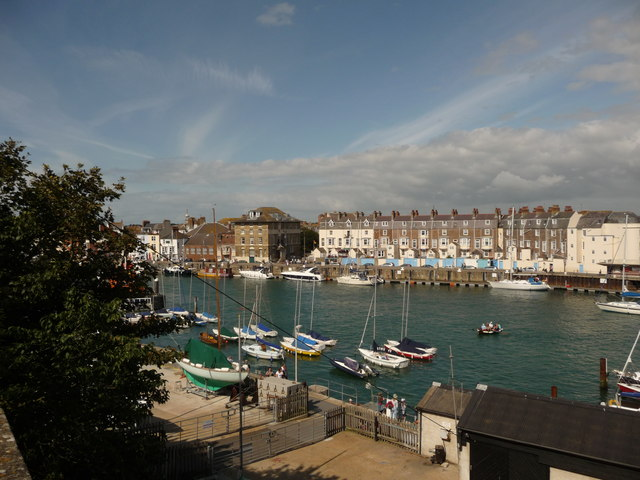 Weymouth - Harbour A view over Weymouth harbour from the steps of Nothe Gardens.